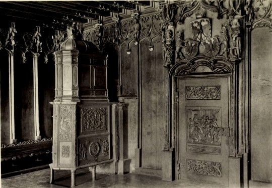 The town hall council chamber (Rathaussaal) of Überlingen. The woodwork, including the coat of arms of the Free Imperial City, is by famous sculptor Jakob Russ (also Ruess, Ruoss), work period 1482-1506. Circa 1930 postcard.